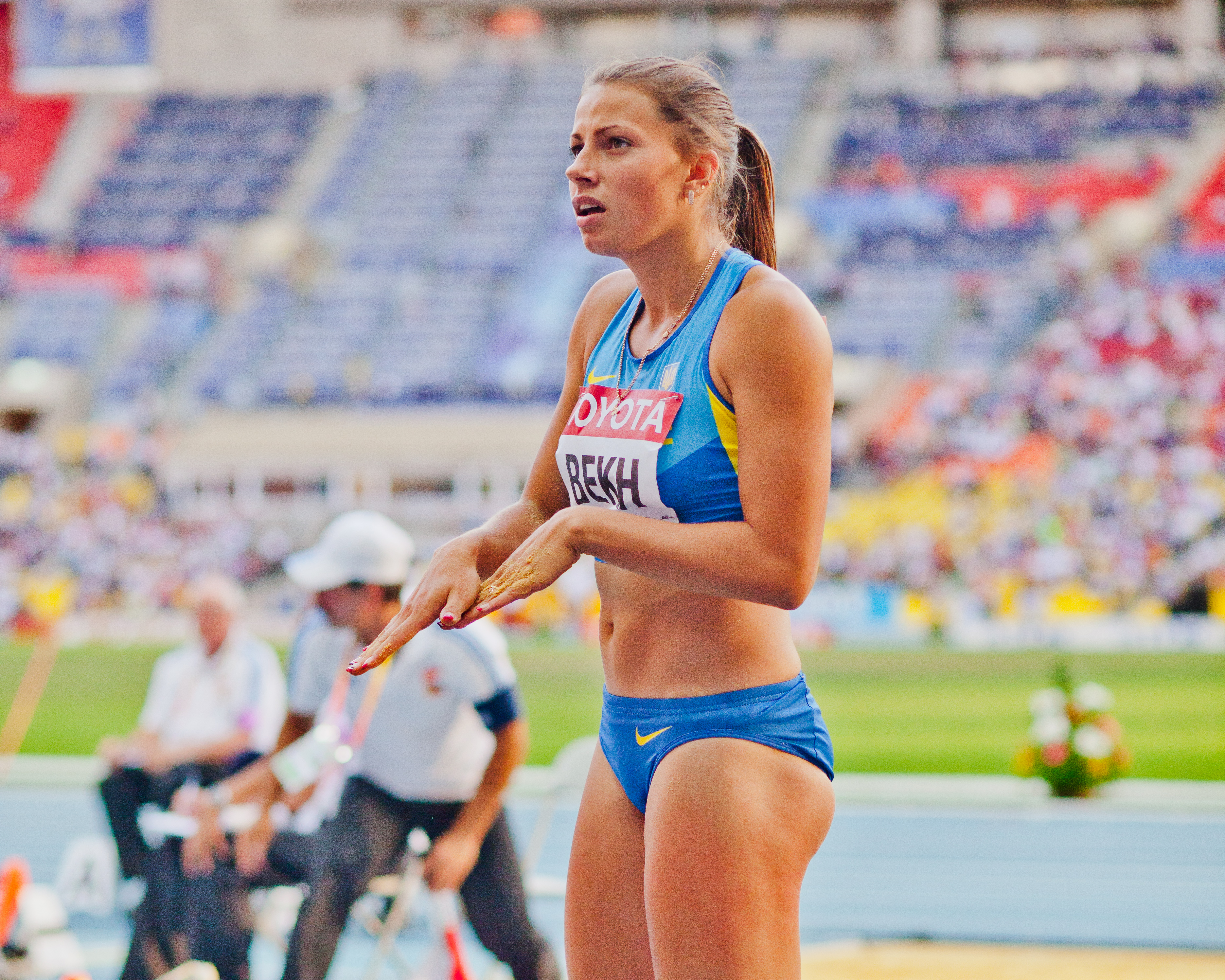 Maryna Bekh during 2013 World Championships in Athletics in Moscow.